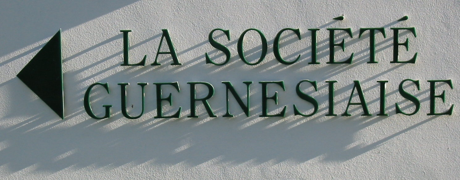 Saint Peter Port, Guernsey